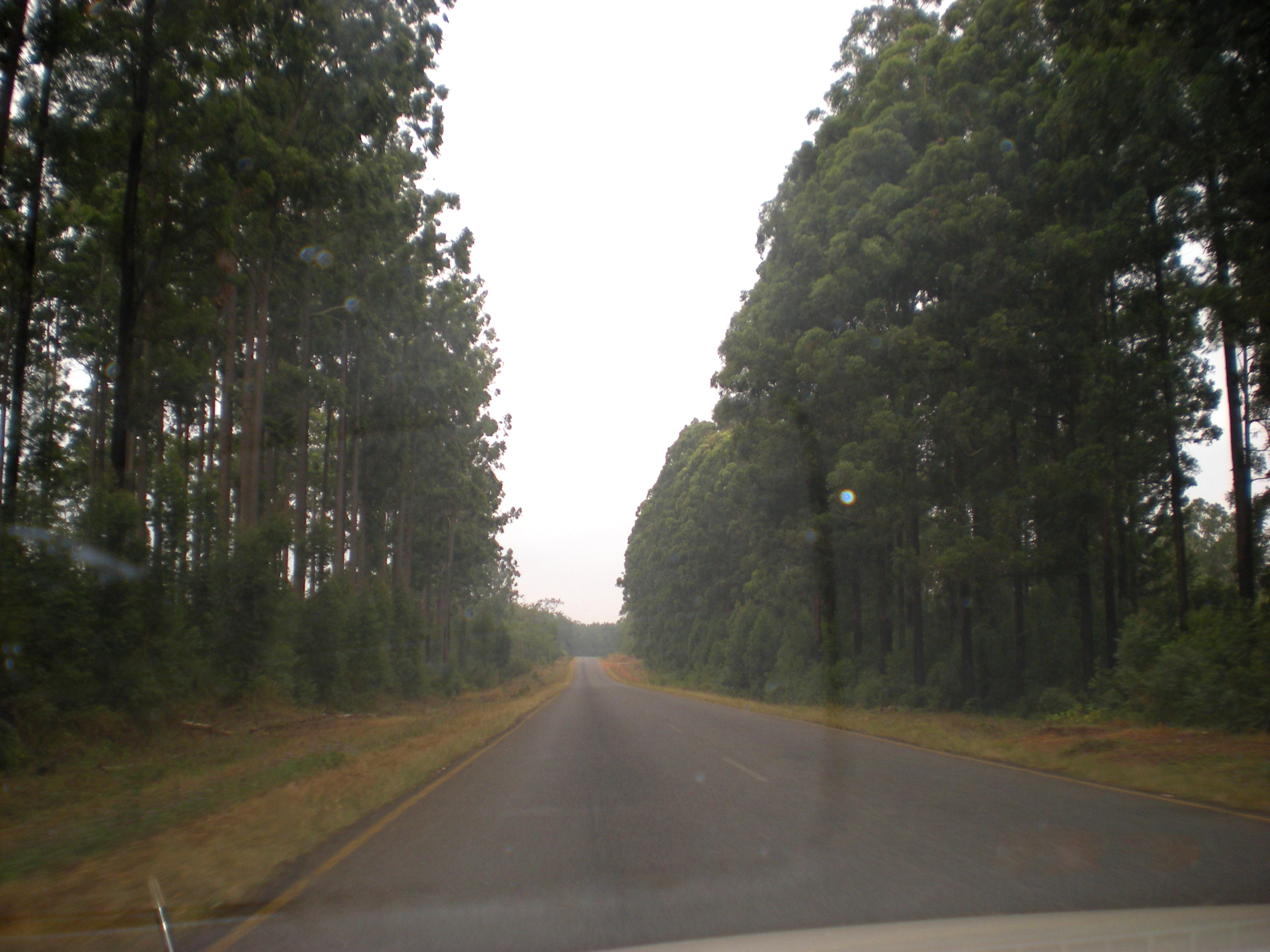 Road to Mzuzu Malawi. This is Chikangawa man-made forest.